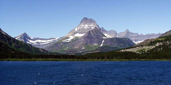 Swiftcurrent Lake and Mount Wilbur, Glacier National Park, Montana, U.S.